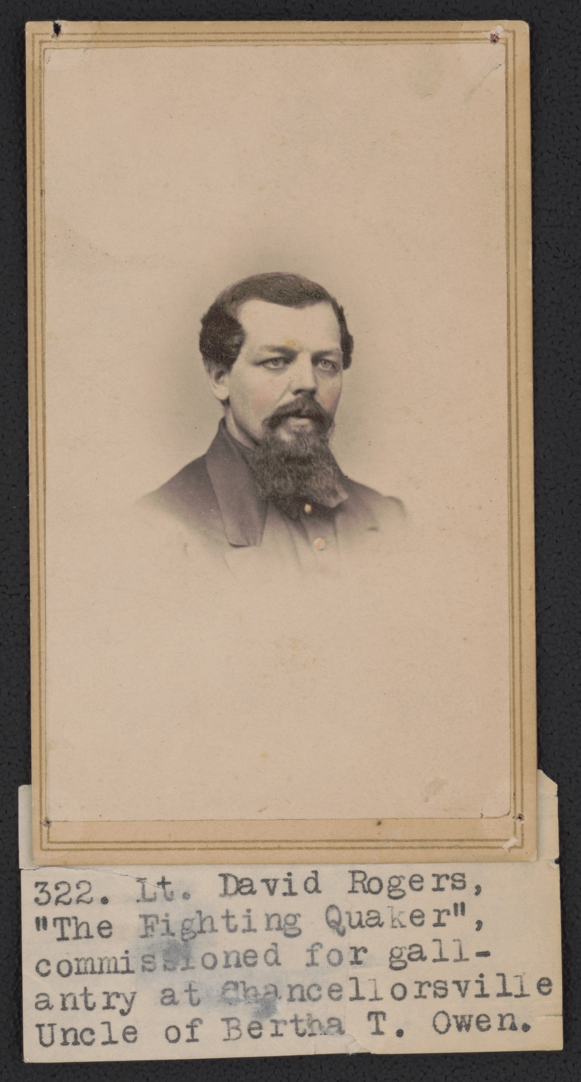 Title: Second Lieutenant David W. Rogers of Co. K, 123rd New York Infantry Regiment, in uniform] / C.H. Williamson's Photographic Portrait Gallery, 245 Fulton St., Brooklyn Abstract/medium: 1 photograph : albumen print on card mount ; mount 11 x 7 cm (carte de visite format)